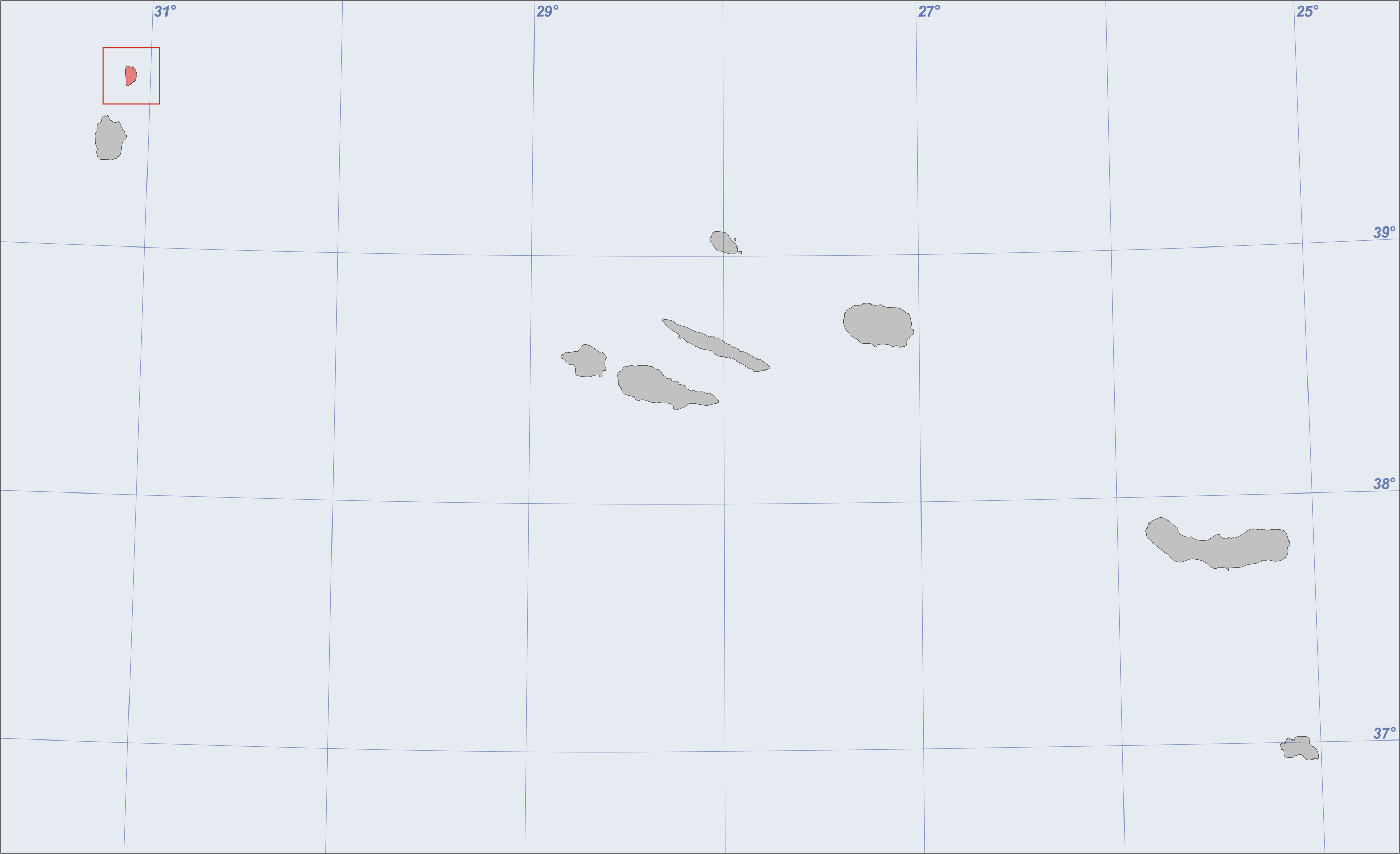 Position of Corvo Island, Azores drawn by varp